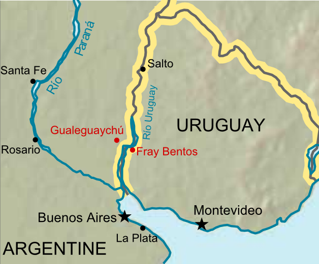 Map of the conflict between Argentina and Uruguay on cellulose plants.